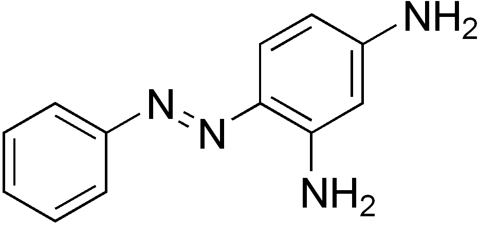 Chrysoidin - corrected chemical structure.